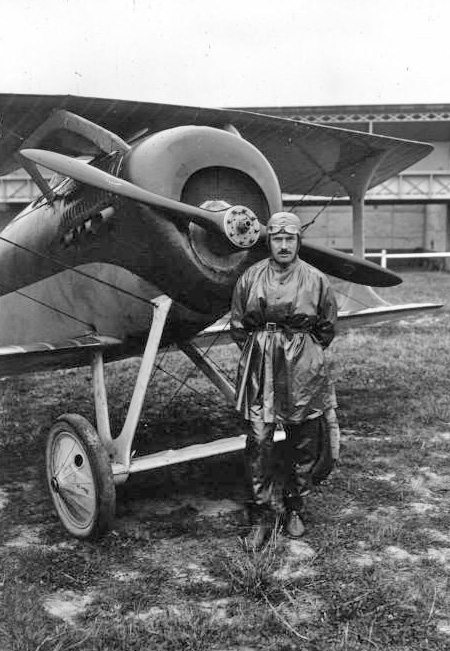 de Romanet standing in front of a Bleriot-SPAD S.20bis racing aircraft